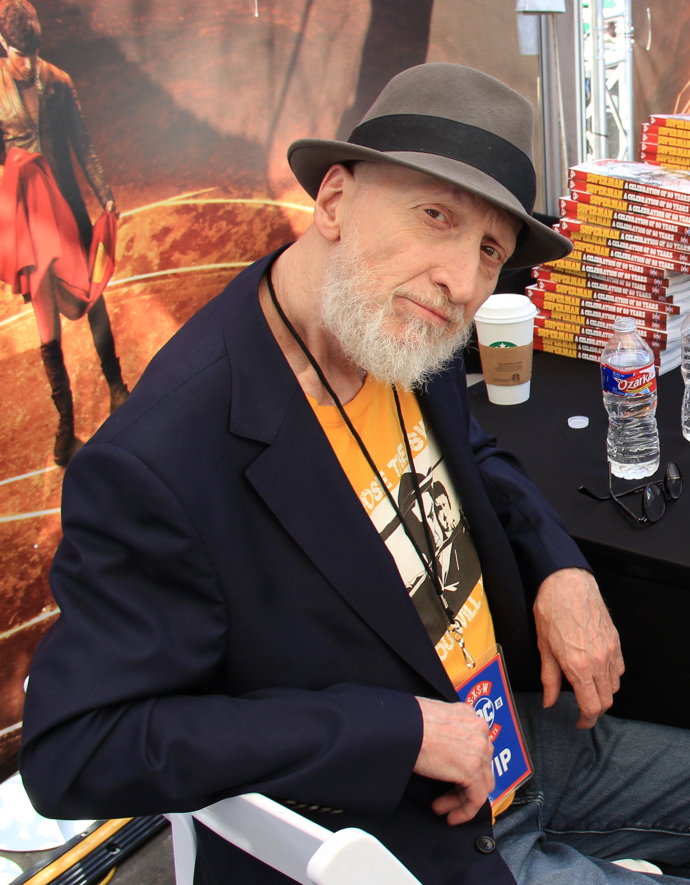 Comics creator Frank Miller on a panel at SXSW 2018 on Superman's 80th anniversary and the release of Action Comics #1000.